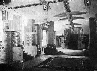 The Kantei (Office of Japanese Prime Minister)